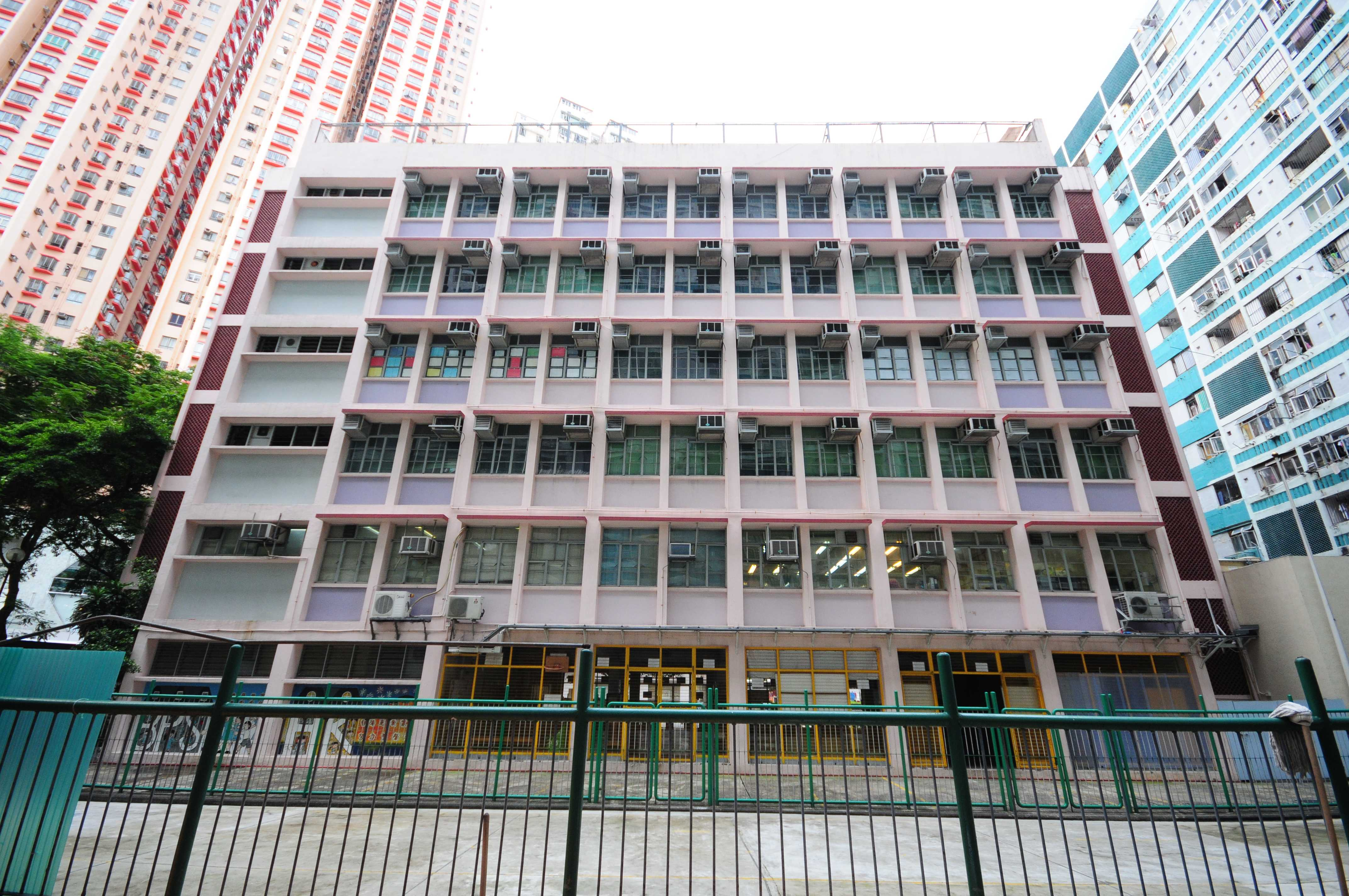 Bishop Paschang Memorial School rear elevation